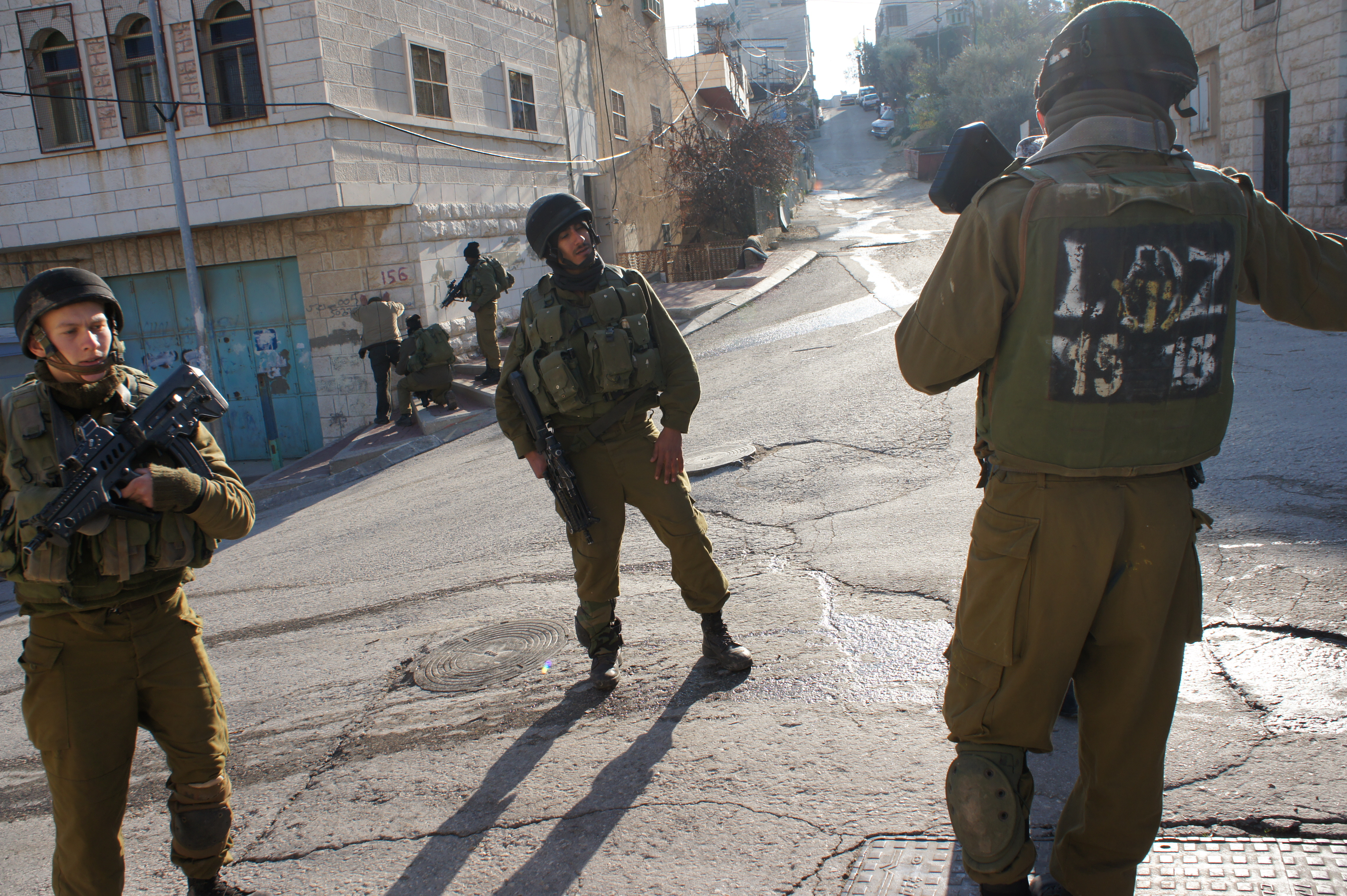 Golani soldiers searching the Palestinians in Tel Rumaida, by Gilbert checkpoint. Palestinians are routinely searched or detained.